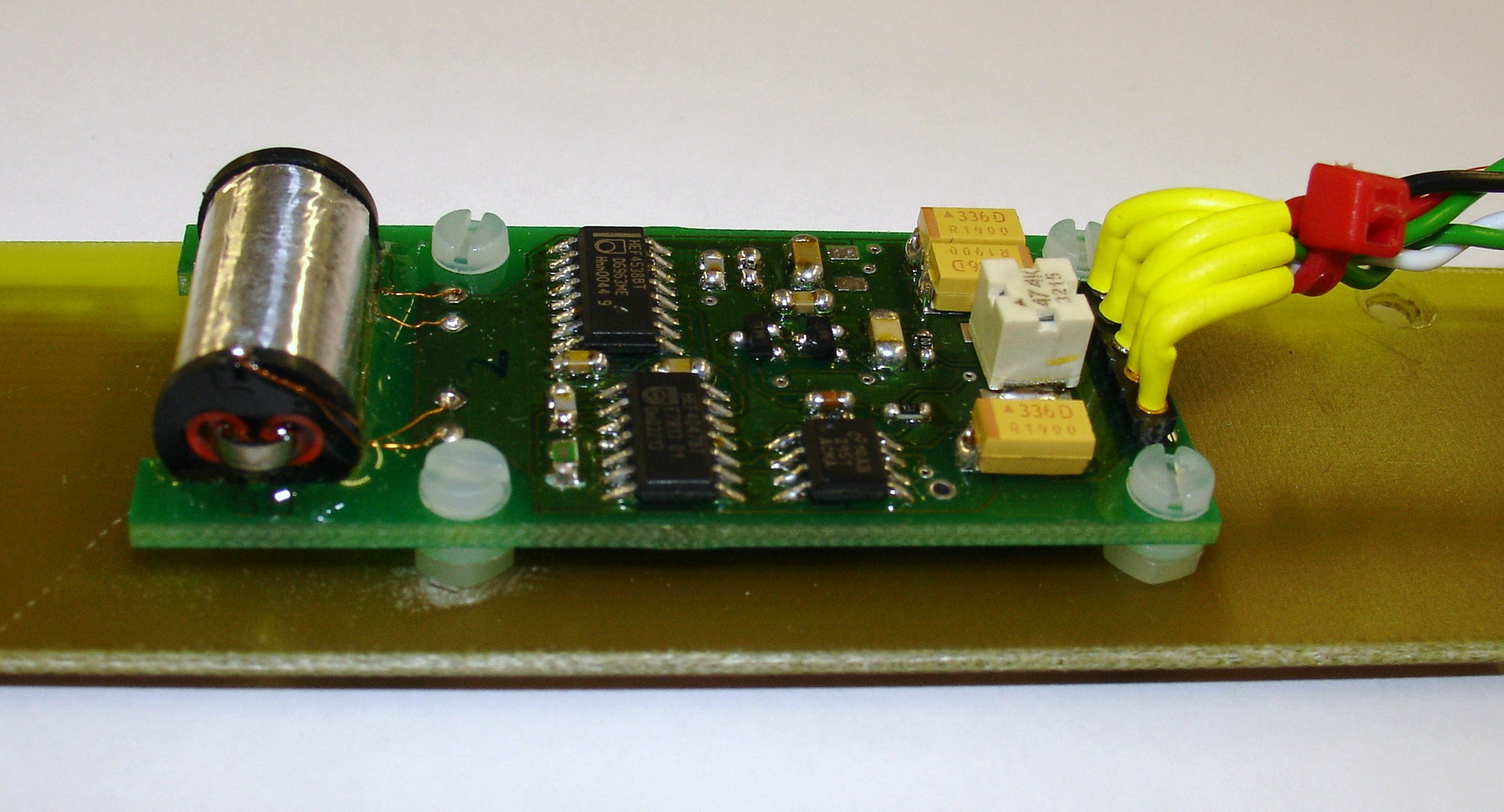 Fluxgate magnetometer. Length of the coil around 10 mm.